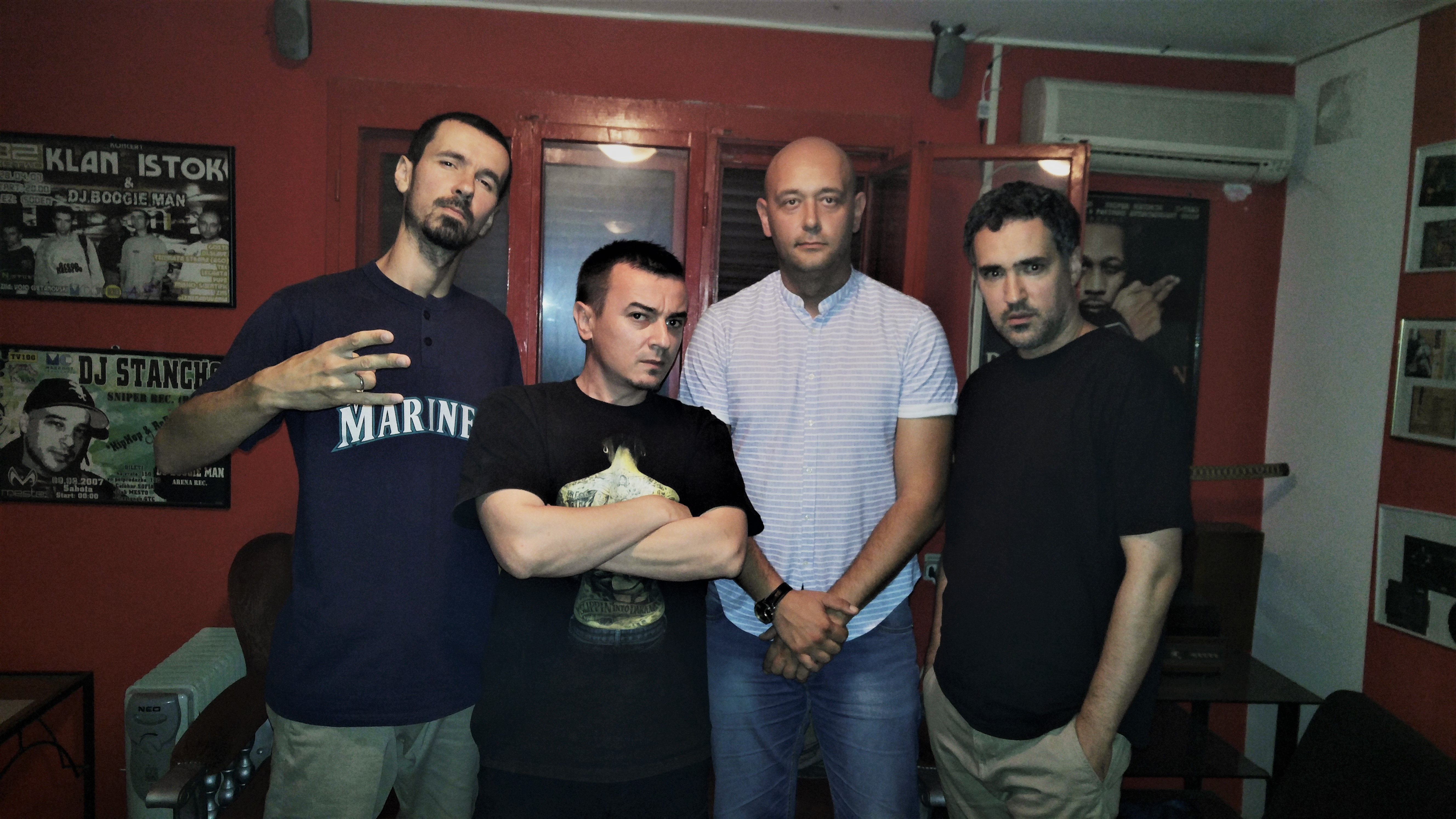 Klan Istok, 2018